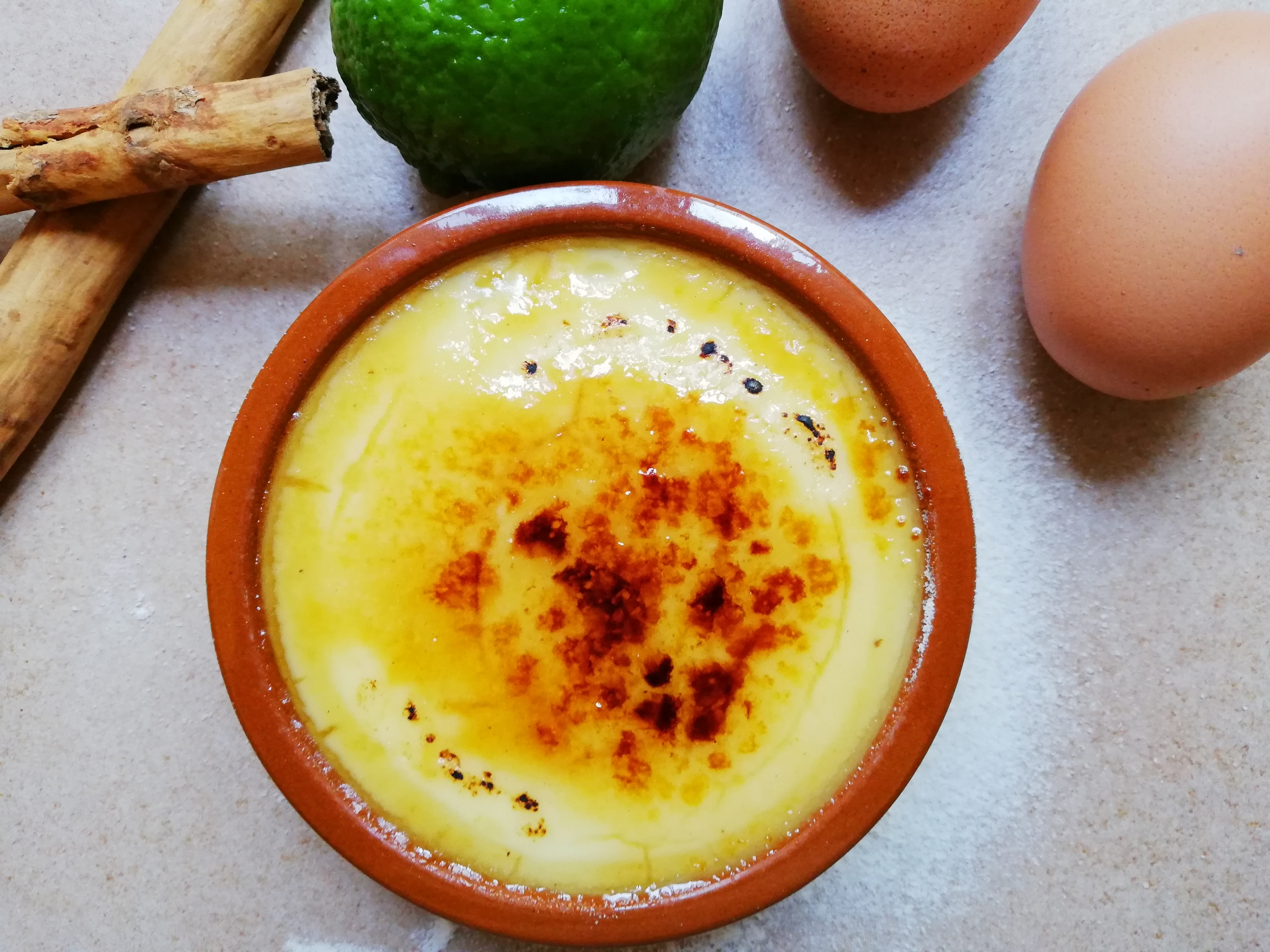 Crema catalana, a lime/cinnamon-flavourd custard with a caramelized top.